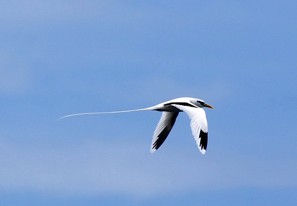 White-tailed Tropicbird (Phaethon lepturus), Réunion